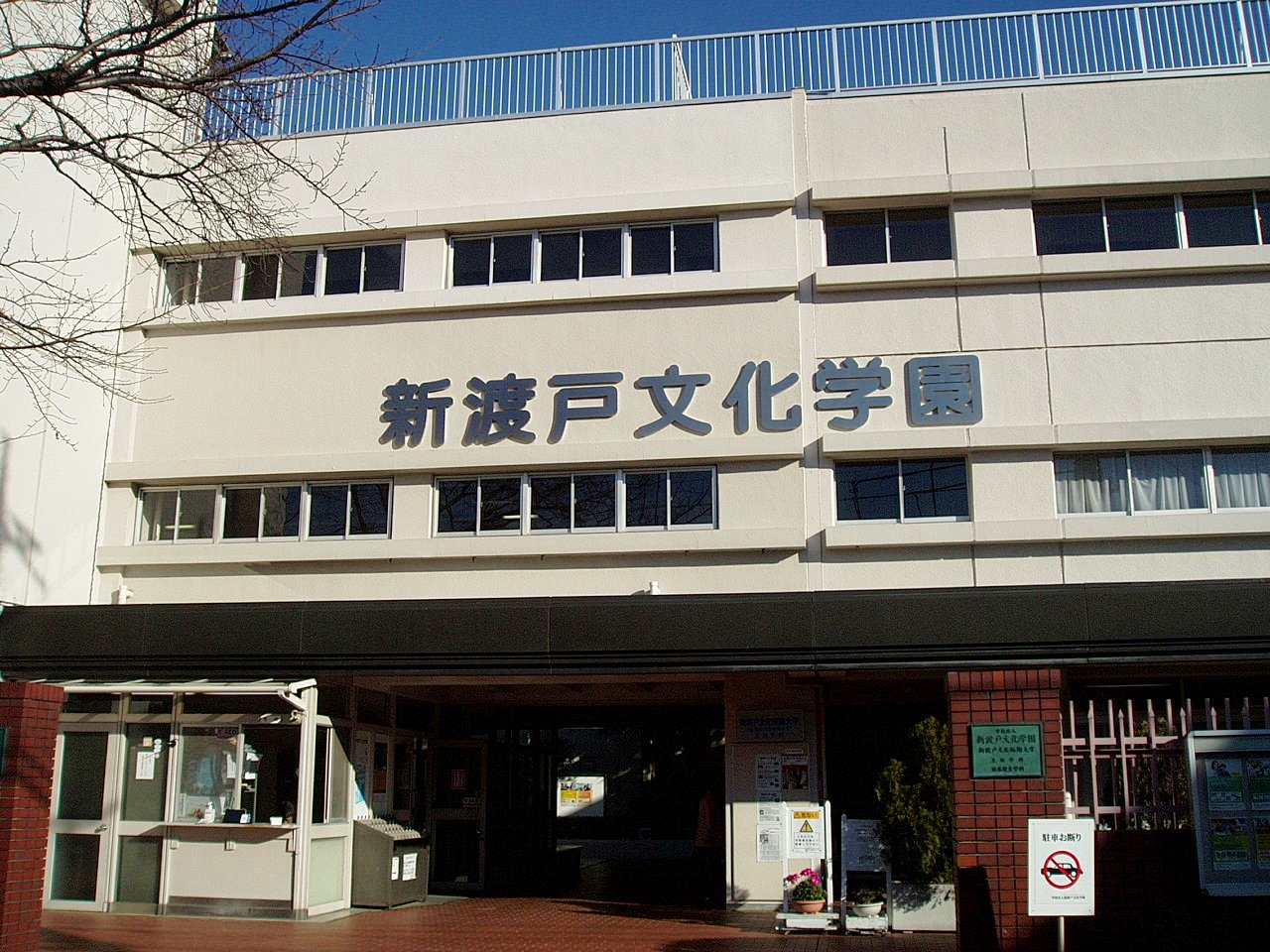 The main entrance to Nitobe Bunka College (former Tokyo Bunka Junior College), located in Nakano-ku, Tokyo, Japan.